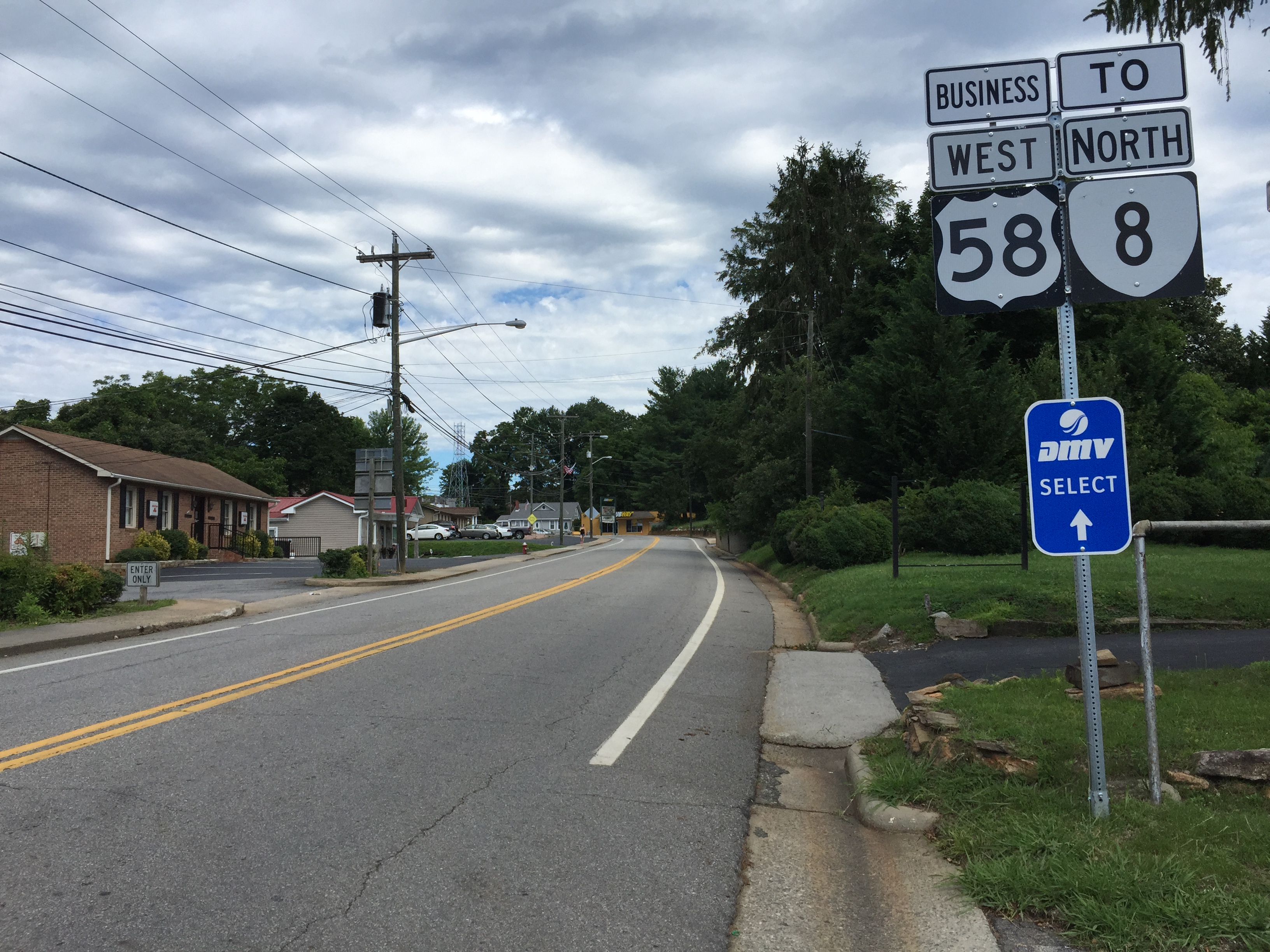 View west along U.S. Route 58 Business and north along Virginia State Route 8 Business (Blue Ridge Street) at Via Avenue in Stuart, Patrick County, Virginia